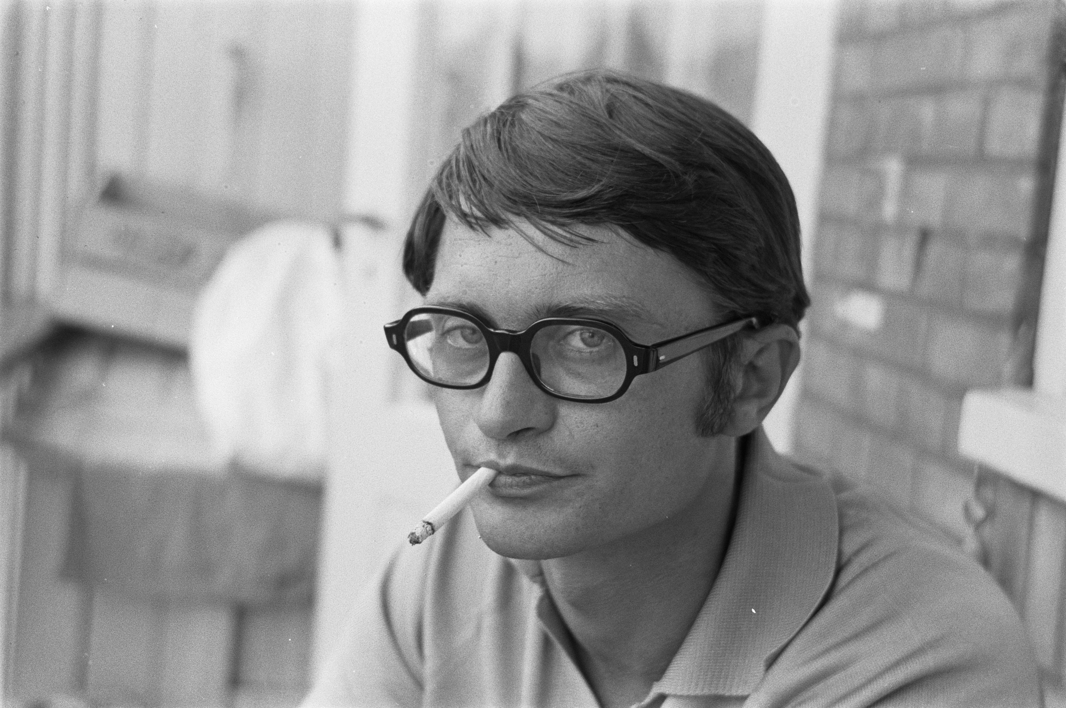 Remco Campert, 23 July 1963